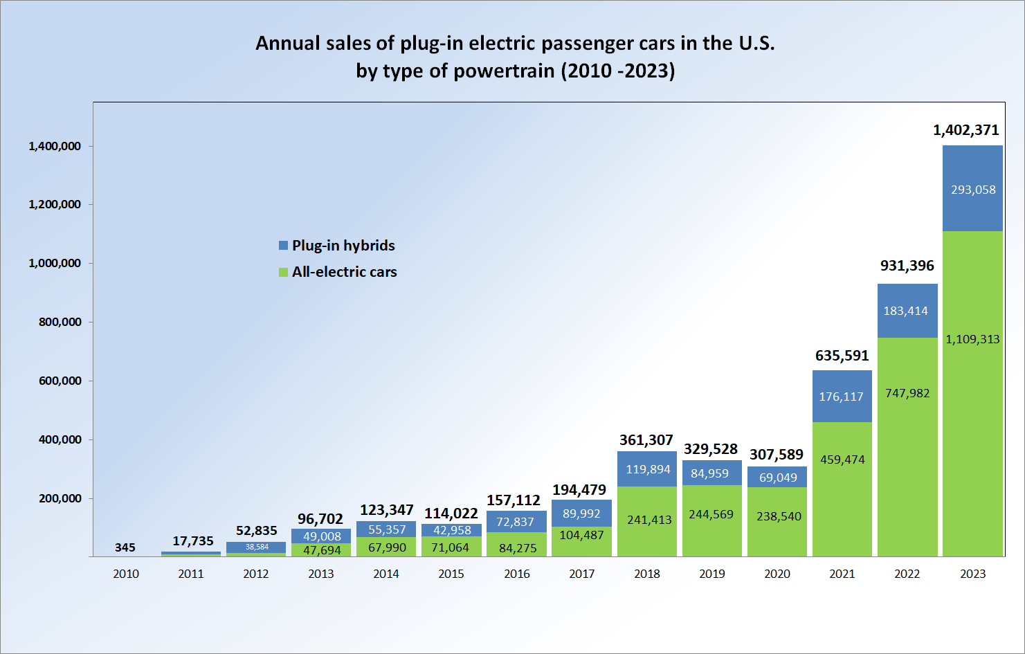 Historical trend of annual sales of plug-in electric passenger cars in the U.S. by type of powertrain (2010-2019)Sources: EDTA: December 2010 to December 2018 (except 2014) InsideEVs: 2019 HybridCARS: Revised figure for 2014 (67,990 BEVs and 55,357 PHEVs, for a combined total of 123,347 plug-in cars)